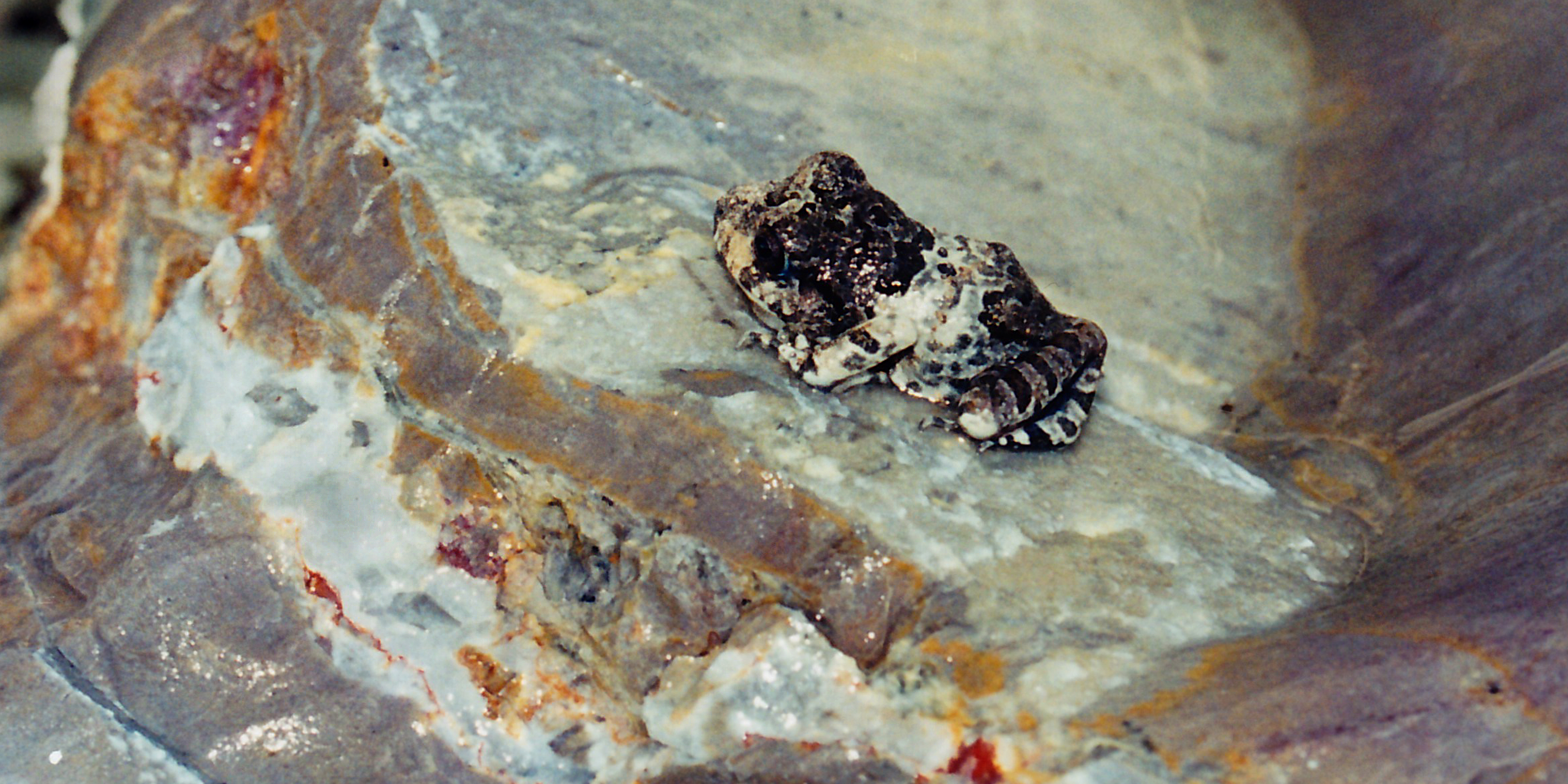 Barking Frog, Tamaulipas (Craugastor augusti), Municipality of Gómez Farías, Tamaulipas, Mexico. Photographed on 9 August 2004 by William L. Farr. This image was originally photographed with film and later scanned from a print.